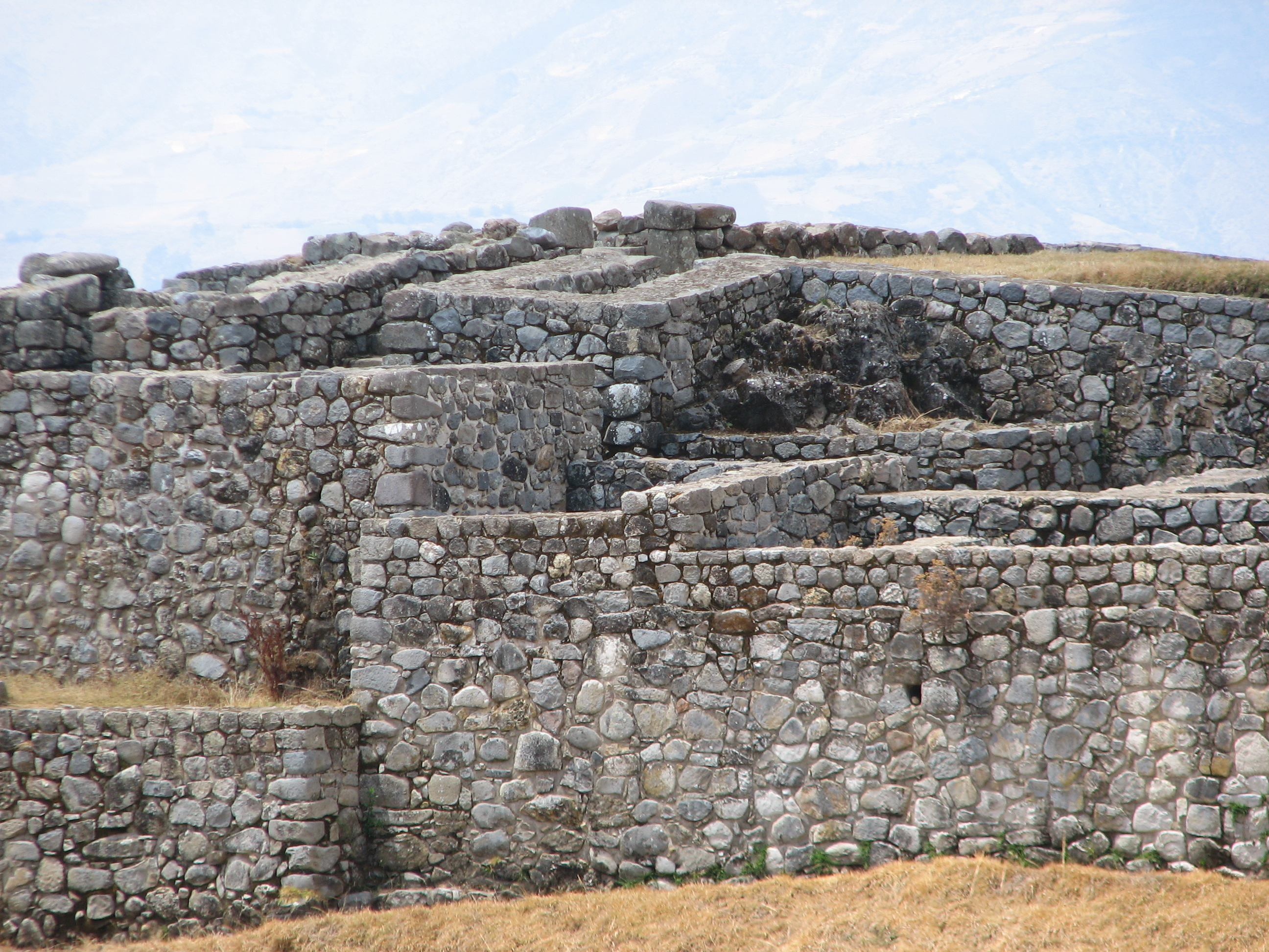 Sayhuite Archaeological site (walls)